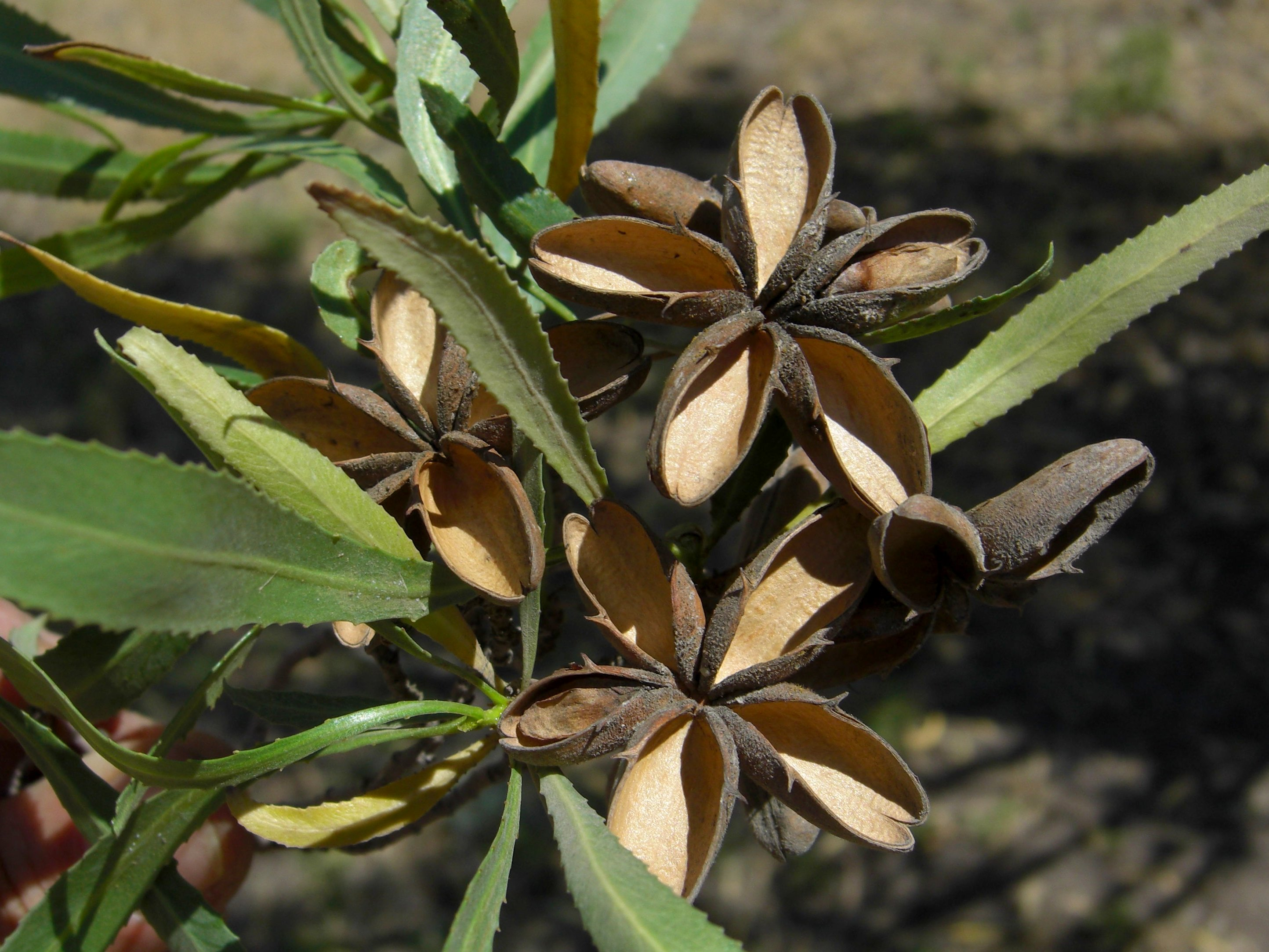 Kageneckia angustifolia 20081120.12 mountain valley east of Santiago, Chile I would never have guessed this in the field -- this "desert willow" with the star-anise-like fruits is actually in the rose family!